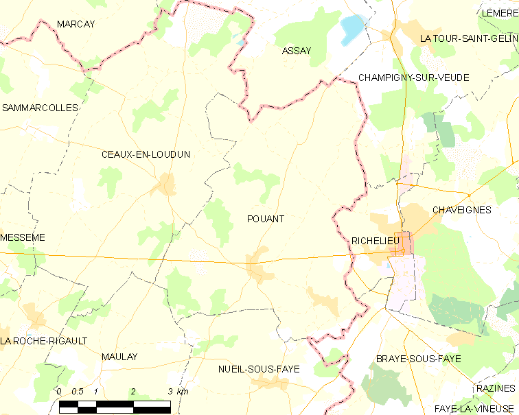 Map of French municipality Pouant